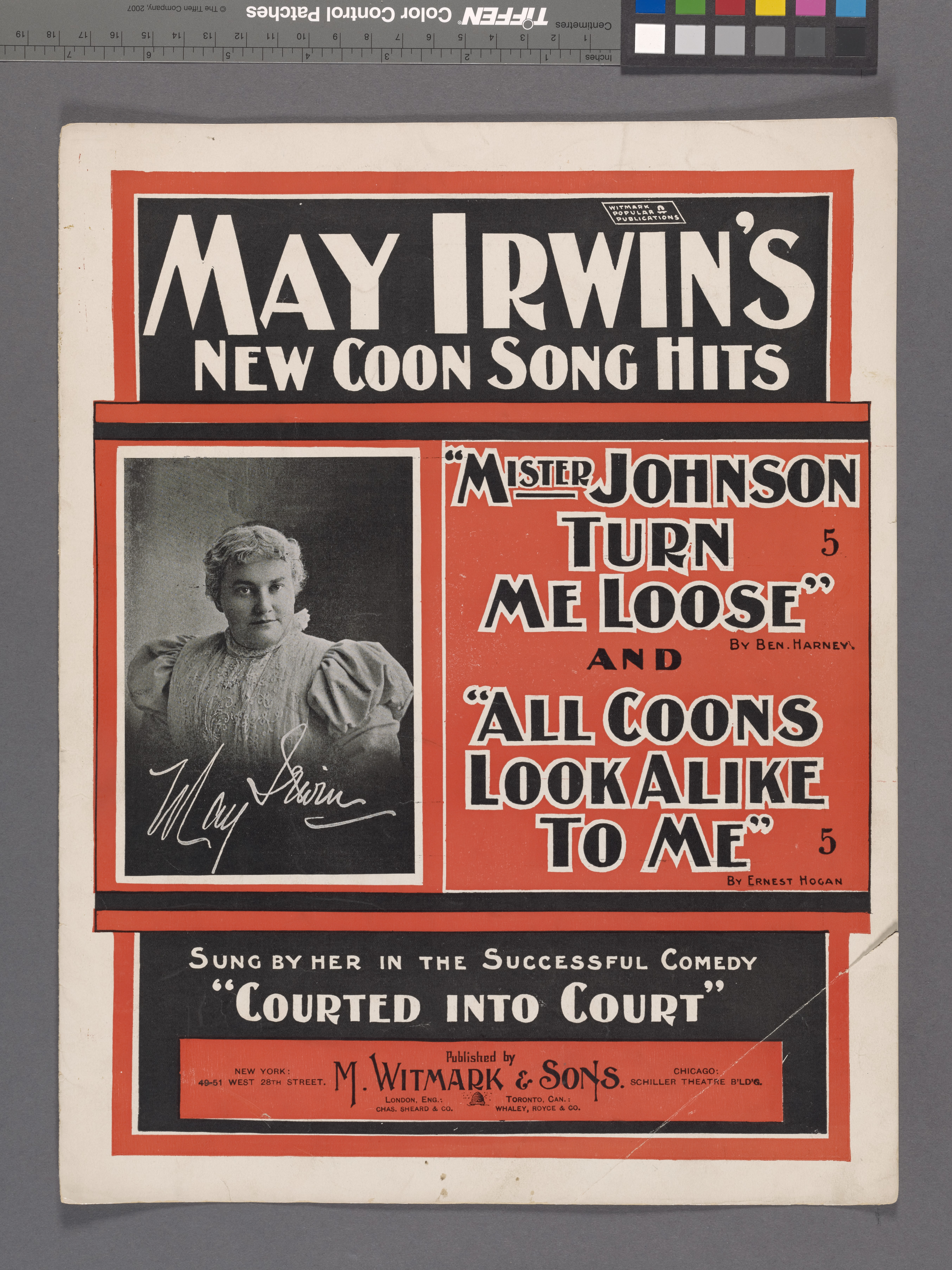 Courted into Court. [musical] On cover: Photograph of May Irwin. Statement of responsibility : words and music by Ernest Hogan.